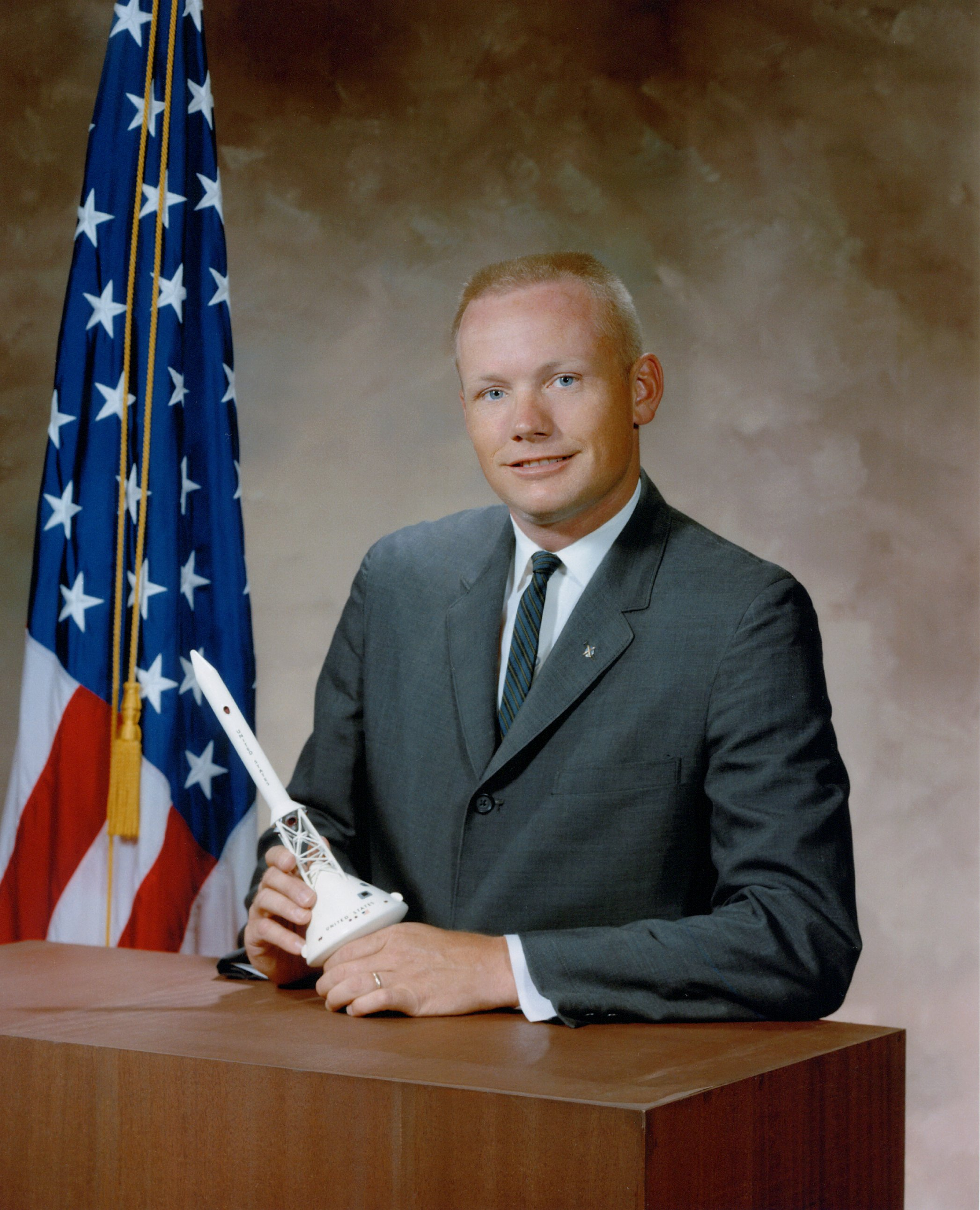 1964 portrait of Neil Armstrong.